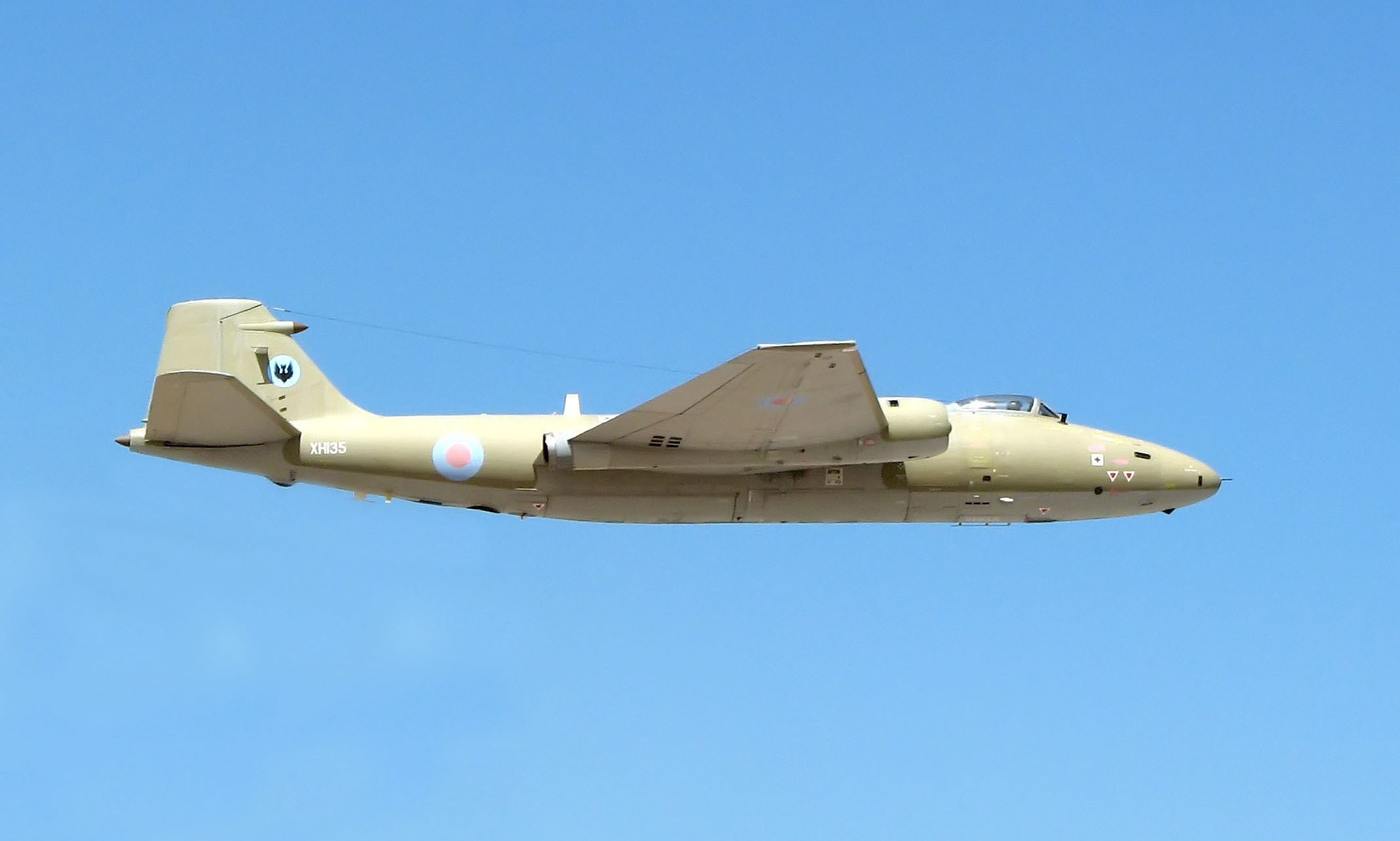 English Electric Canberra PR.9 (identifier XH135) taking off from the Royal International Air Tattoo, RAF Fairford, Gloucestershire, England. Photographed by Adrian Pingstone on July 17th 2006 and released to the public domain.